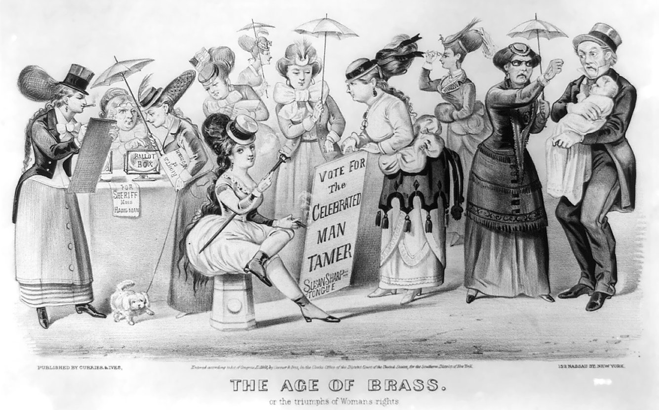 "The age of brass. or the triumphs of Woman's rights", an 1869 lithograph print published by Currier and Ives (152 Nassau St., New York). This is a satirical caricature of the possible consequences of giving women the vote. The two candidates "Susan Sharp-tongue the Celebrated Man-Tamer" (dressed in circus-performer costume) and "Miss Hangman for Sheriff" canvass for women's votes (in 1869 women couldn't vote anywhere in the United States, except as a newly-established experimental innovation in the remote territory of Wyoming). At the right, a sharp-featured woman brandishes a fist threateningly at her husband, who holds the baby. In the 1860s chignons were a fashionable hairstyle worn by most women and often supplemented with a roll of artificial hair. The artist has caricatured this hairstyle. Bibliographic information found on the LoC site ([1]): TITLE: The age of brass: Or the triumphs of woman's rights CALL NUMBER: PGA - Currier & Ives--Age of Brass: (A size) [P&P] REPRODUCTION NUMBER: LC-USZC2-1921 (color film copy slide) LC-USZ62-700 (b&w film copy neg.) SUMMARY: Women lining up at a ballot box. Man holding a baby at the end of the line. MEDIUM: 1 print : lithograph. CREATED/PUBLISHED: [New York] : Currier & Ives, 1869. CREATOR: Currier & Ives. NOTES: Currier & Ives : a catalogue raisonné / compiled by Gale Research. Detroit, MI : Gale Research, c1983, no. 0067. Published in: American women : a Library of Congress guide for the study of women's history and culture in the United States / edited by Sheridan Harvey ... [et al.]. Washington : Library of Congress, 2001, p. 379. SUBJECTS: Women--Political activity--1860-1870. Relations between the sexes--1860-1870. Queues--1860-1870. Voting--1860-1870. Women's suffrage--1860-1870. FORMAT: Lithographs 1860-1870. REPOSITORY: Library of Congress Prints and Photographs Division Washington, D.C. DIGITAL ID: (color film copy slide) cph 3b49804 (b&w film copy neg) cph 3a04616 CARD #: 90708465